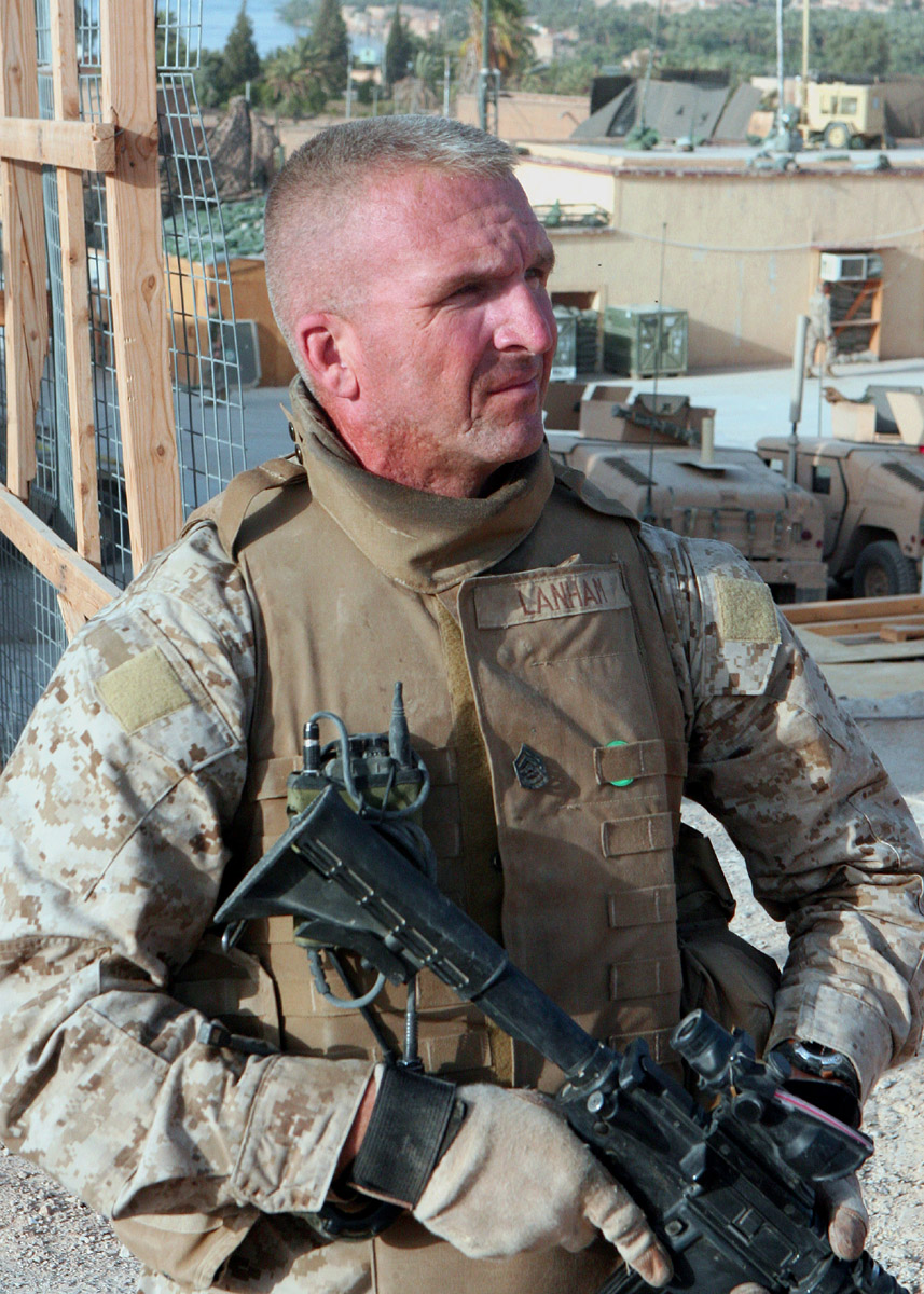 Gunnery Sgt. Jim Lanham, a 36-year-old from Clarksville, Tenn., is the company gunnery sergeant for the Hawaii-based Company K, 3rd Battalion, 3rd Marine Regiment, and is currently deployed in support of Operation Iraqi Freedom. Lanham fought off an insurgent attack against his company's compound in Barwana, Iraq, several weeks ago. Lt. Col. Norman L. Cooling, commanding officer of the battalion, said Lanham's aggressive action against the insurgents that day was highly commendable. "The aggressive action of this staff non-commissioned officer of Marines epitomizes everything we expect of leaders in this type of combat environment," said Cooling. "It was a focused and immediate attack. Lanham seized the opportunity at hand while precisely destroying the enemy without collateral damage and keeping the Marines' honor clean." Lanham said he was just doing what any of the noncommissioned officers in his company would have done. "I did what I had to do and I know if any of the other Marines in Kilo Company were in that situation, the outcome would have been the same," said Lanham.